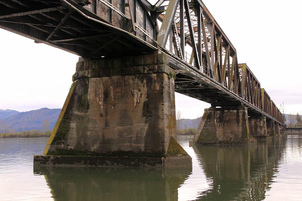 A railway bridge near Mission, BC.